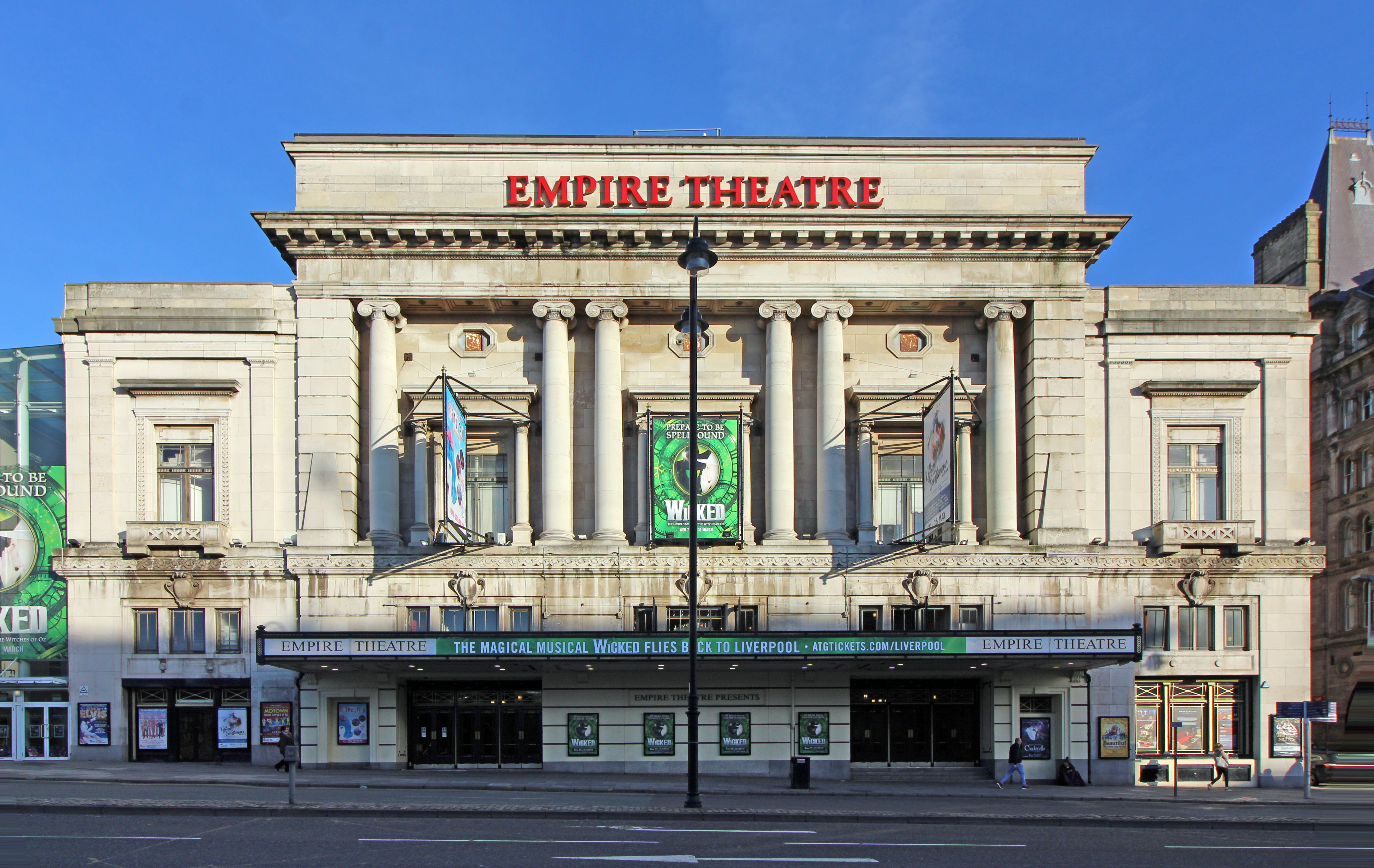 Viewed across Lime Street. Grade II listed theatre built 1920s for Moss Empires. Loosely neo-classical style with innovations in audience seating arrangement.